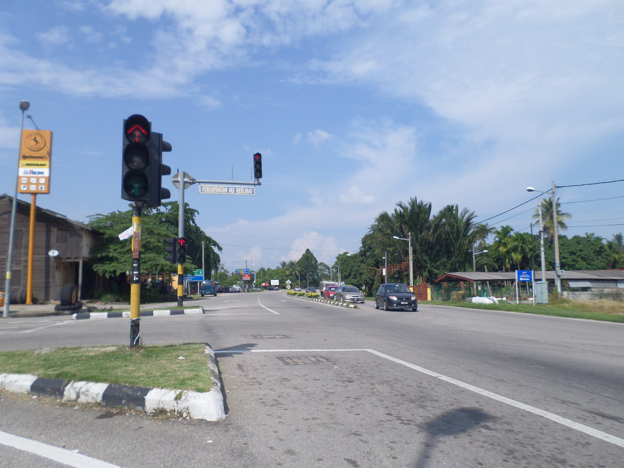 Merlimau, Jasin, Malacca, MalaysiaBahasa Melayu: Merlimau, Jasin, Melaka, Malaysia